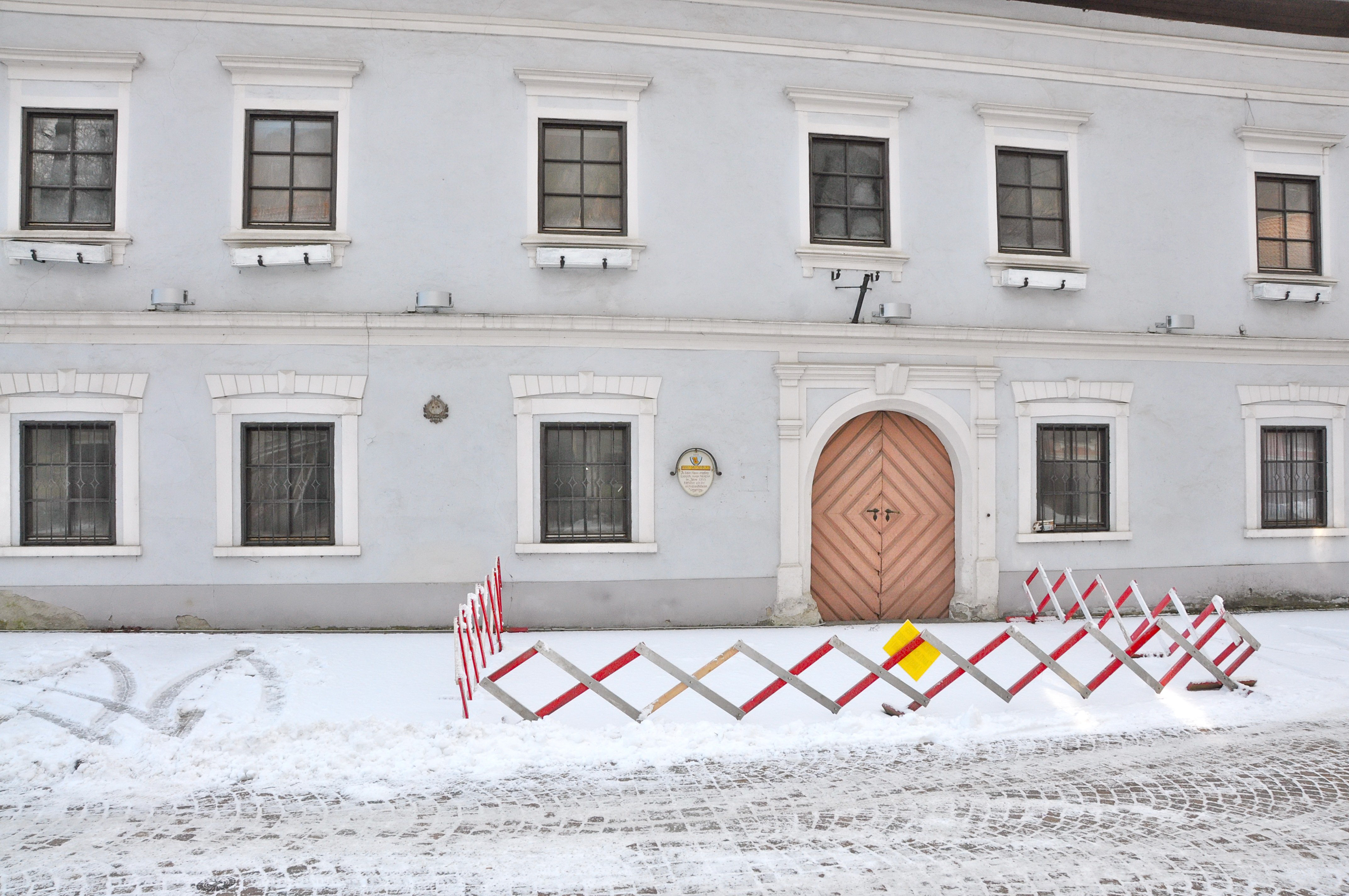 Cutout of the building on the Market Square #7 in Sachsenburg, municipality Sachsenburg, district Spittal an der Drau, Carinthia, Austria